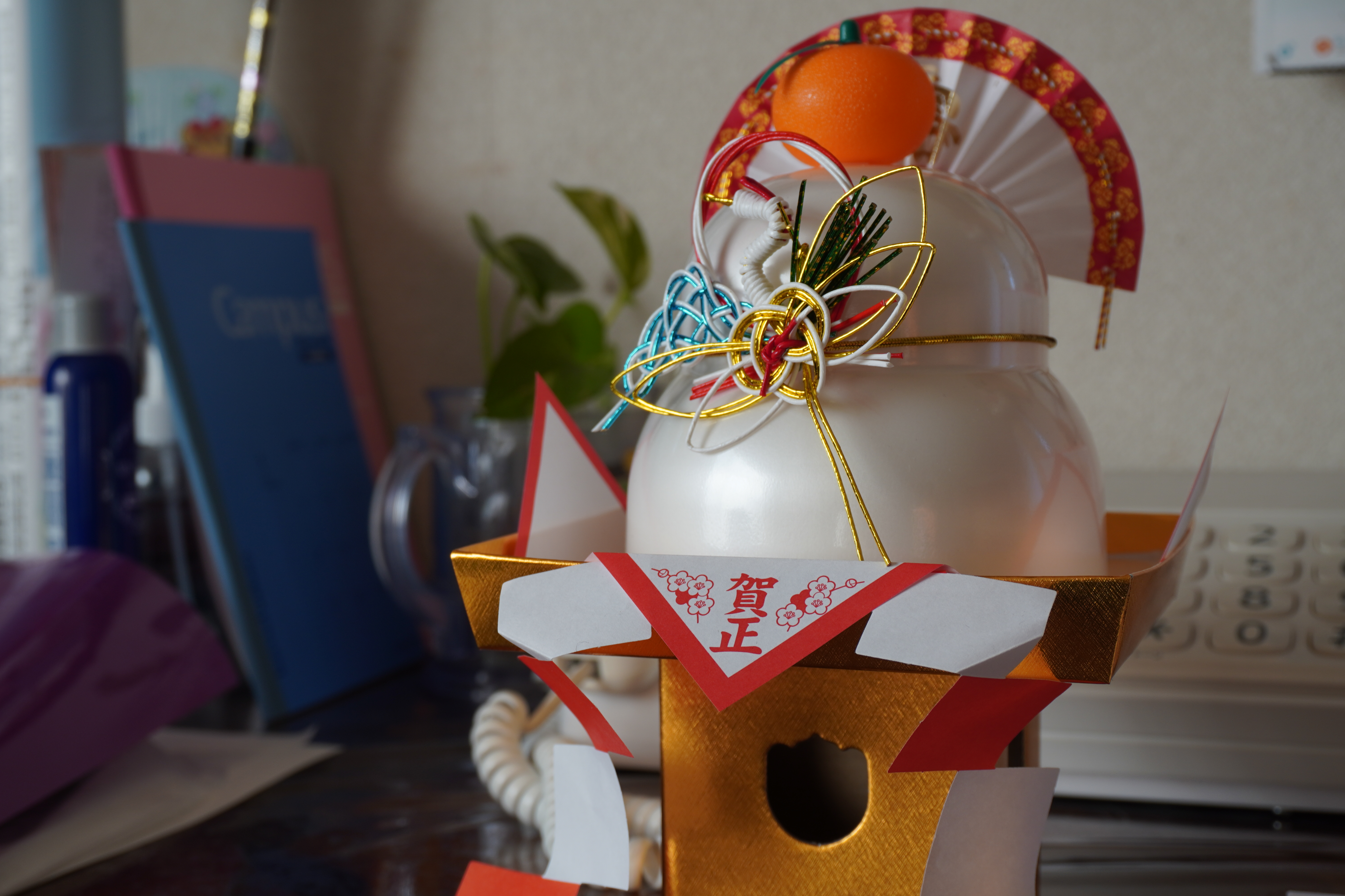 Kagami mochi (Japanese New Year decoration).